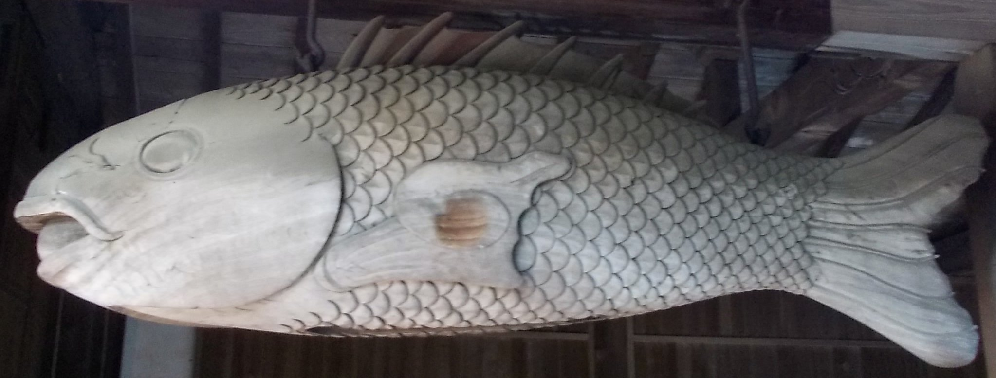 Gyoban at Shofuku-ji Temple, Nagasaki, Japan